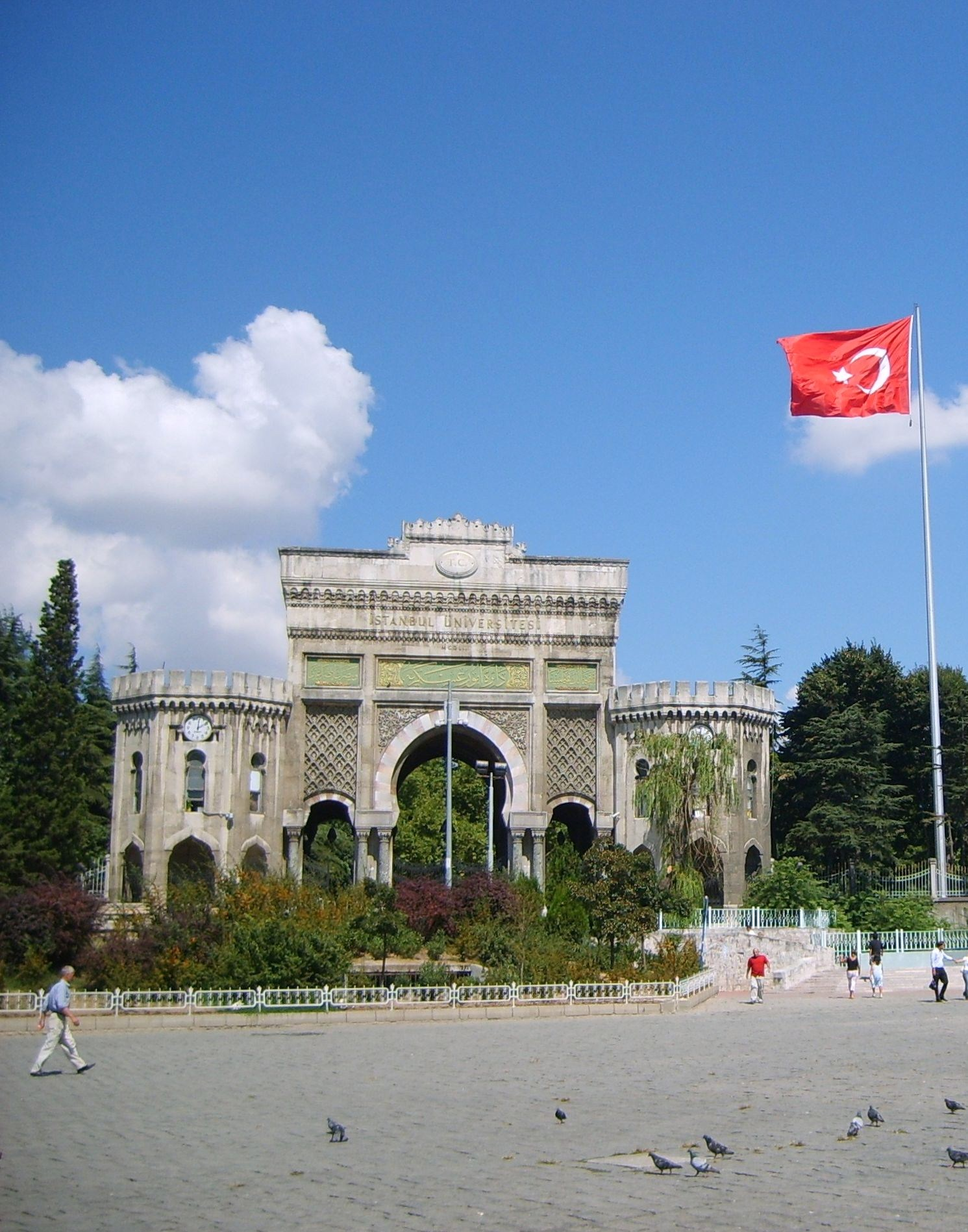 Main entrance gate of Istanbul University on Beyazıt Square which was known as Forum Tauri in the Roman period. Beyazıt Tower, located within the campus, is seen in the background.